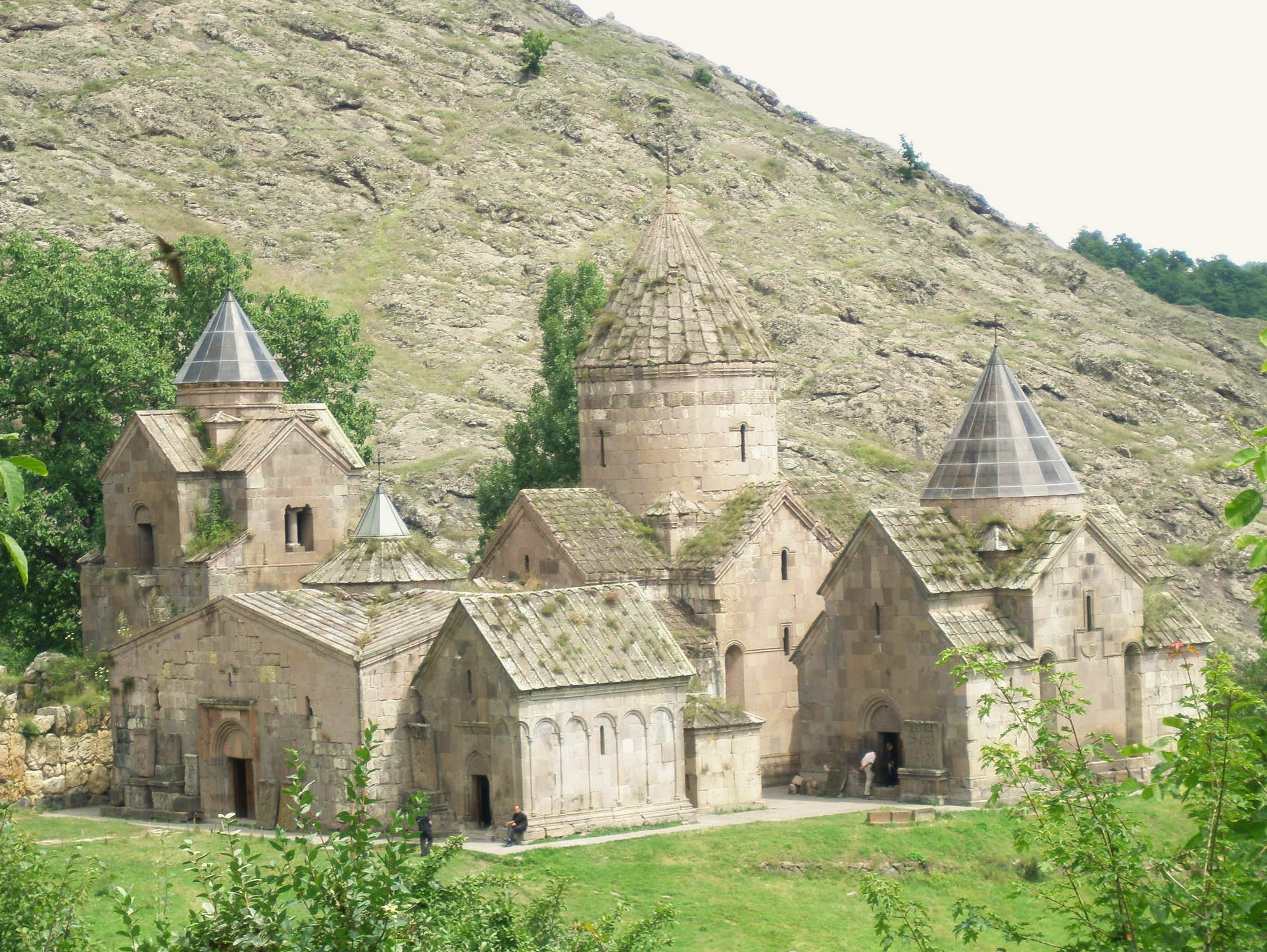 View of Goshavank from the tomb of Mkhitar Gosh.